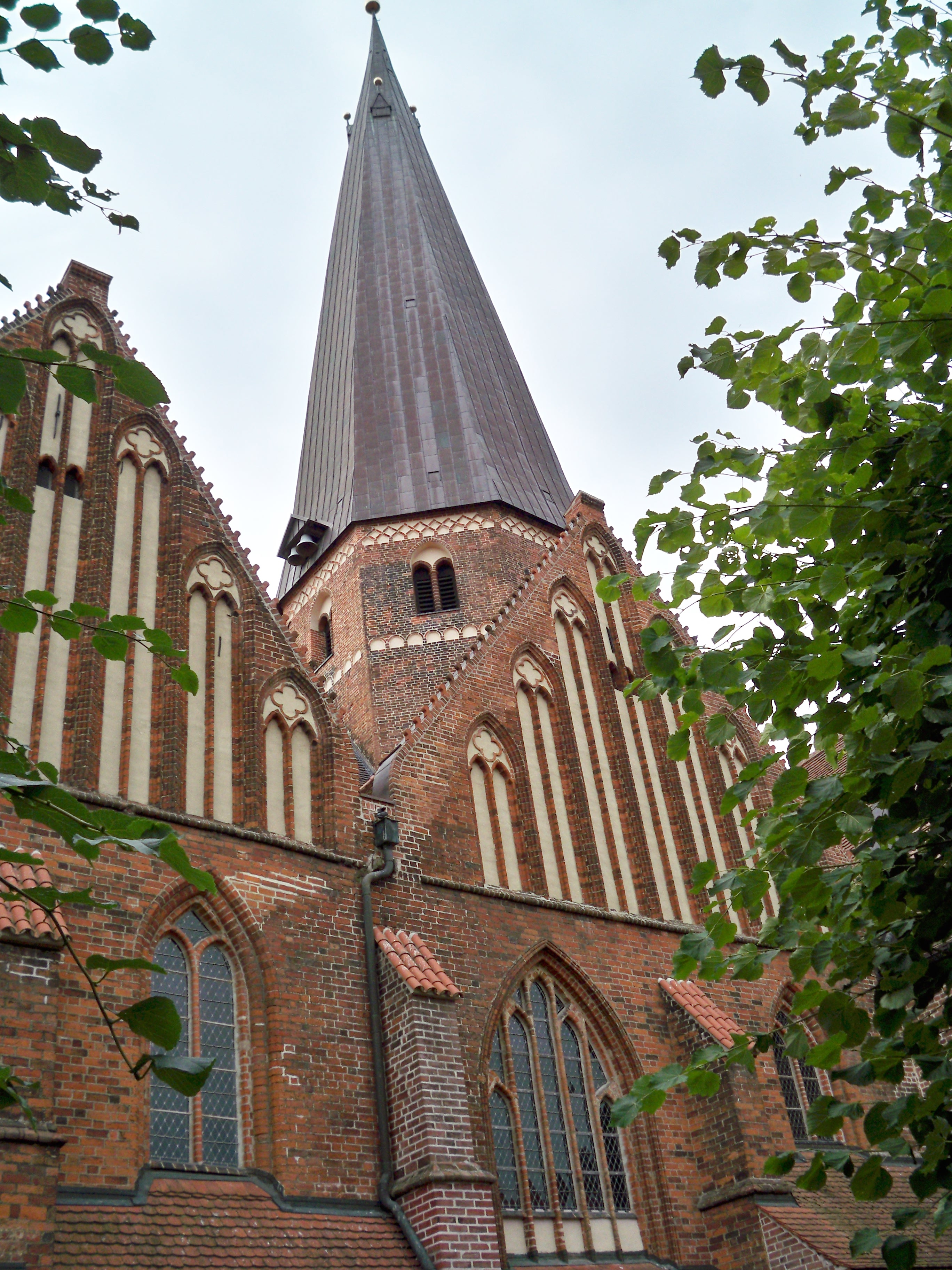 Marienkirche in Salzwedel seen from North